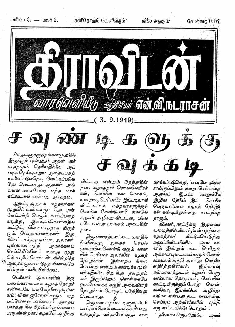 Masthead of Tamil Magazine Dravidan edited by N. V. Natarajan dated Sep 3 1949. It shows an editorial about the turmoil in Dravidar Kazhagam over Periyar E. V. Ramasamy's marriage to Maniammai.